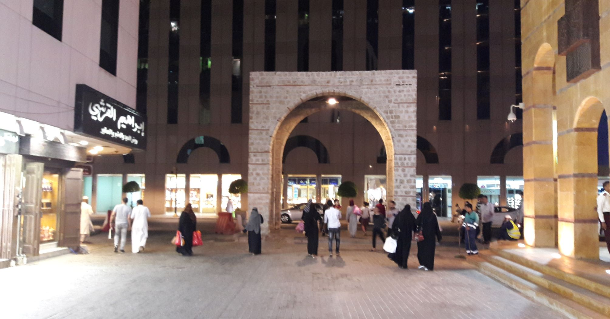 Balad, Jeddah